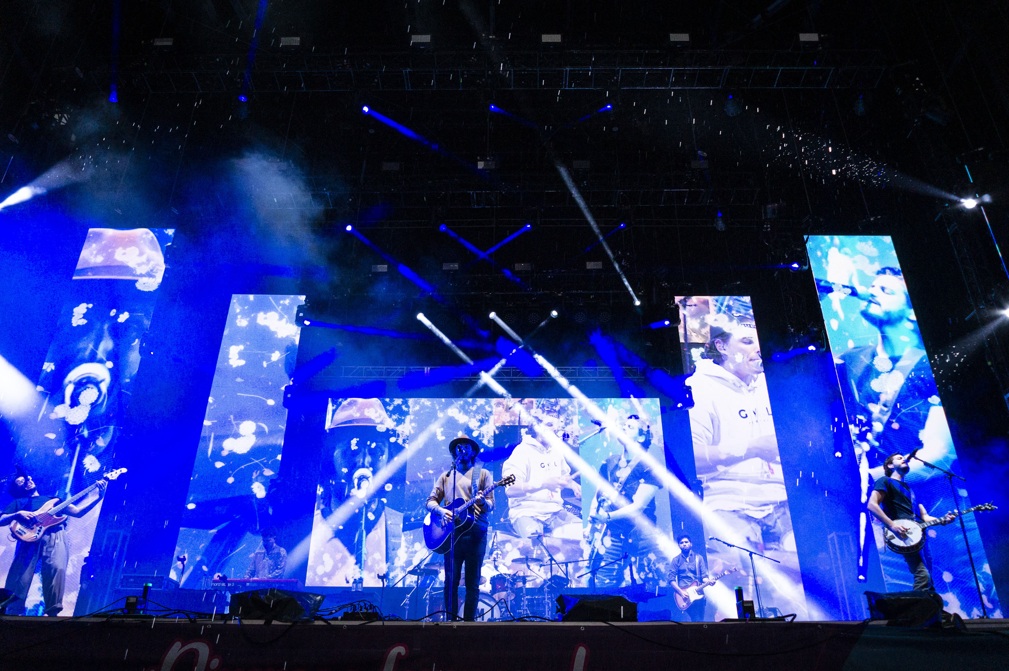 Morat on stage in Mexico City. Friday, 14 February 2020. Picture by Andrea Herrera / Secretaria de Cultura de la Ciudad de Mexico.